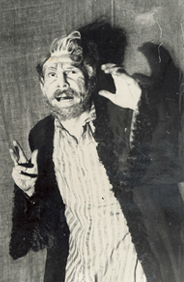 Sharifzade as Knyaz